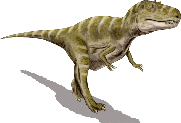 Gorgosaurus libratus, a theropod from the late Cretaceous of North America, pencil drawing & digital coloring; transaprent background